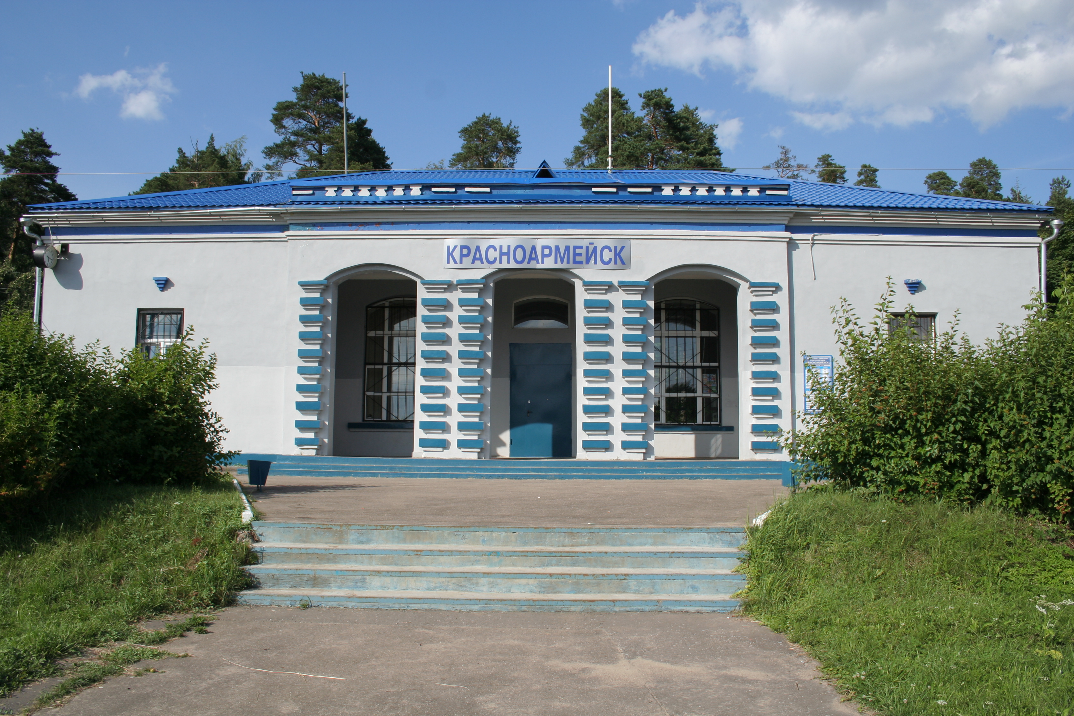 Train station in Krasnoarmeysk, Moscow Oblast, Russia